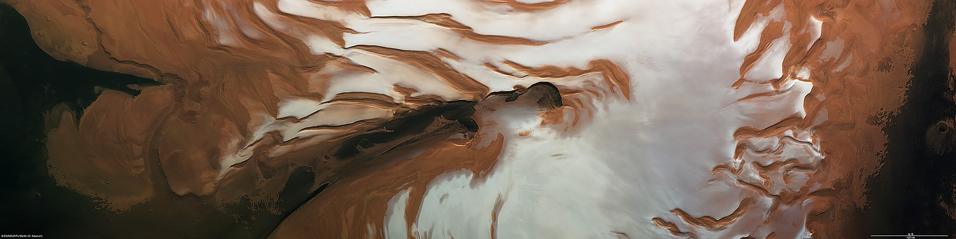 Mars' northern polar regions imaged by the HRSC instrument aboard Mars Express during summer solstice.